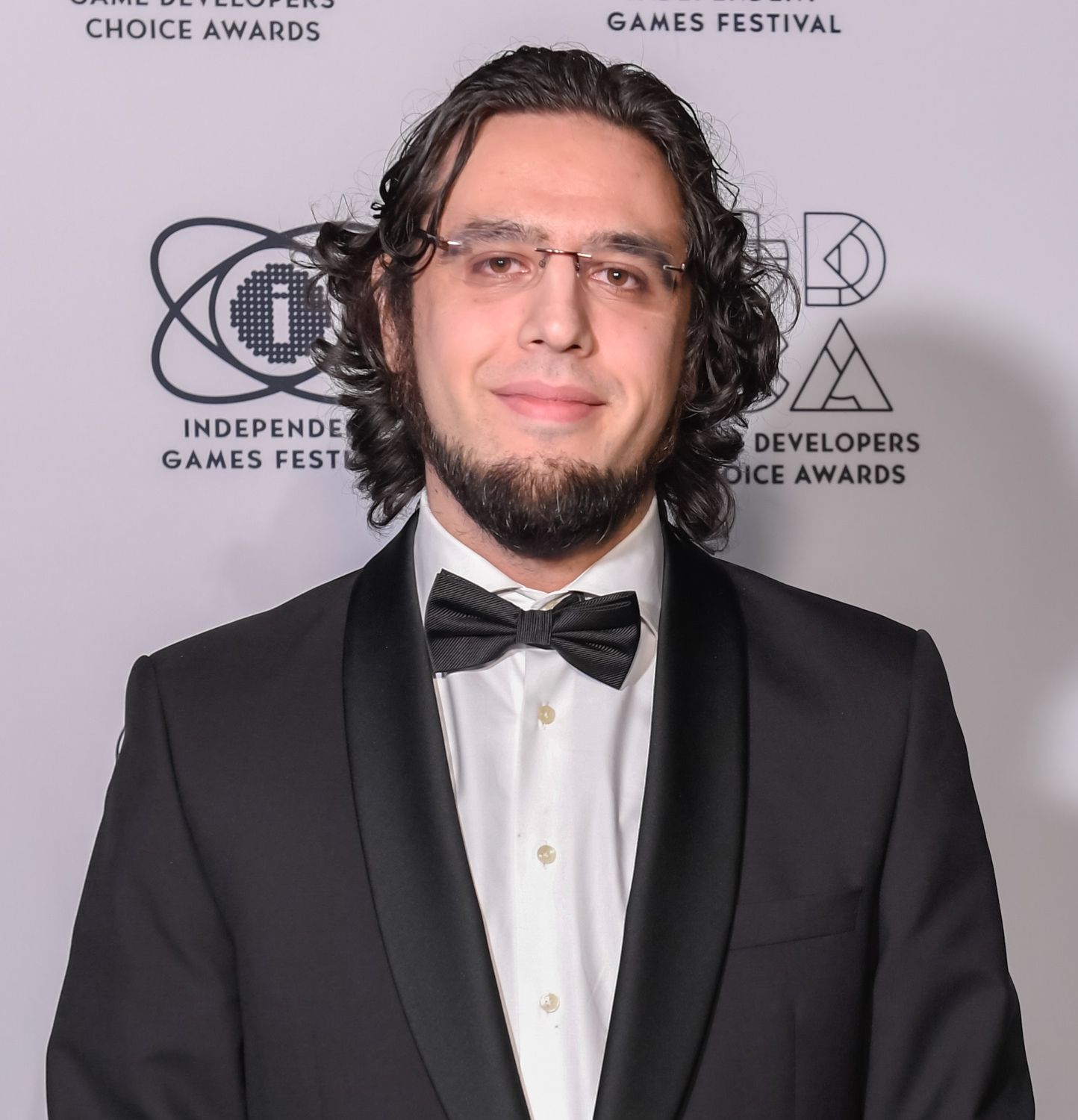 Rami Ismail at the 2018 Game Developers Conference, Independent Games Festival (March 20–23, 2018, SF)